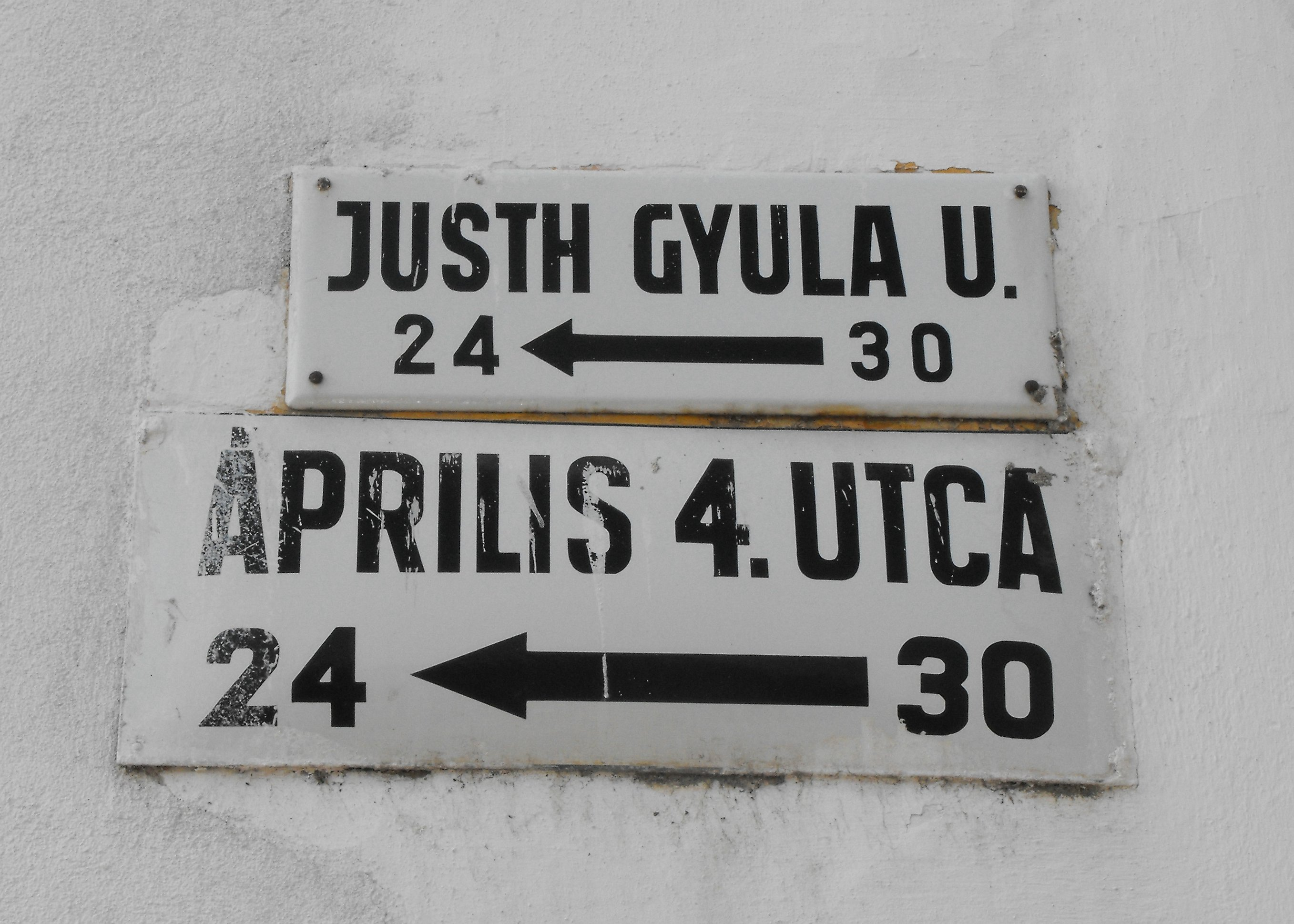 Street signs in Makó, Hungary. Originally the street was named after Gyula Justh, MP of Csanád County (1884-1917). In the communist era the street was renamed, bearing the date on which the Soviet Red Army occupied Hungary. After the change of regime the street got back its former name.